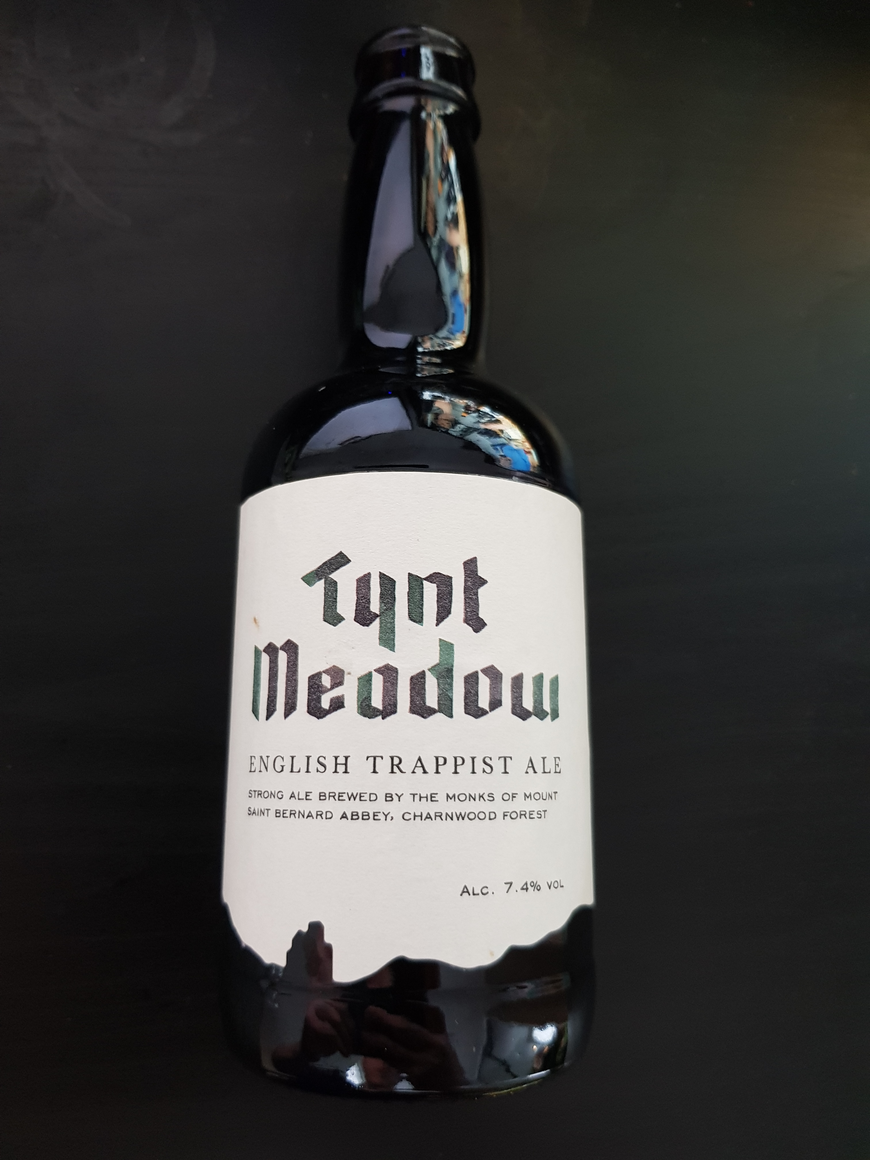 Tynt Meadow Ale Bottle Picture - 2019